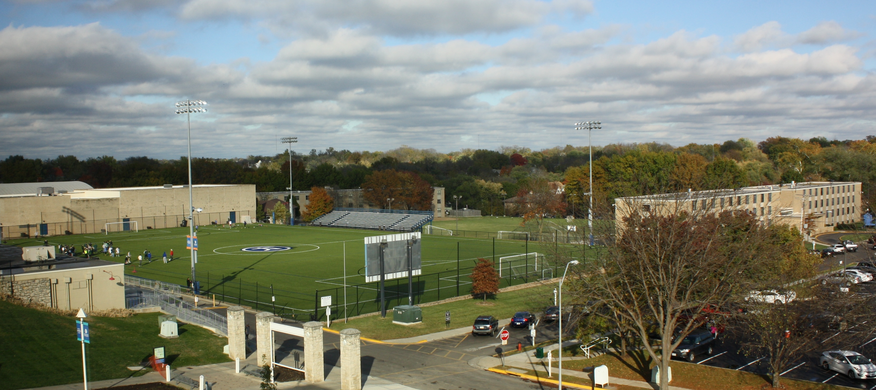 Rockhurst field with fieldhouse and dormitories in background